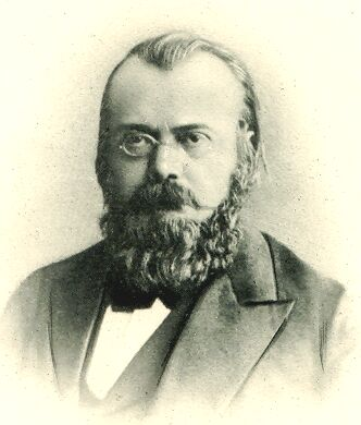 Friedrich August Theodor Winnecke (Februar 5, 1835 - December 3, 1897) was a German astronomer.